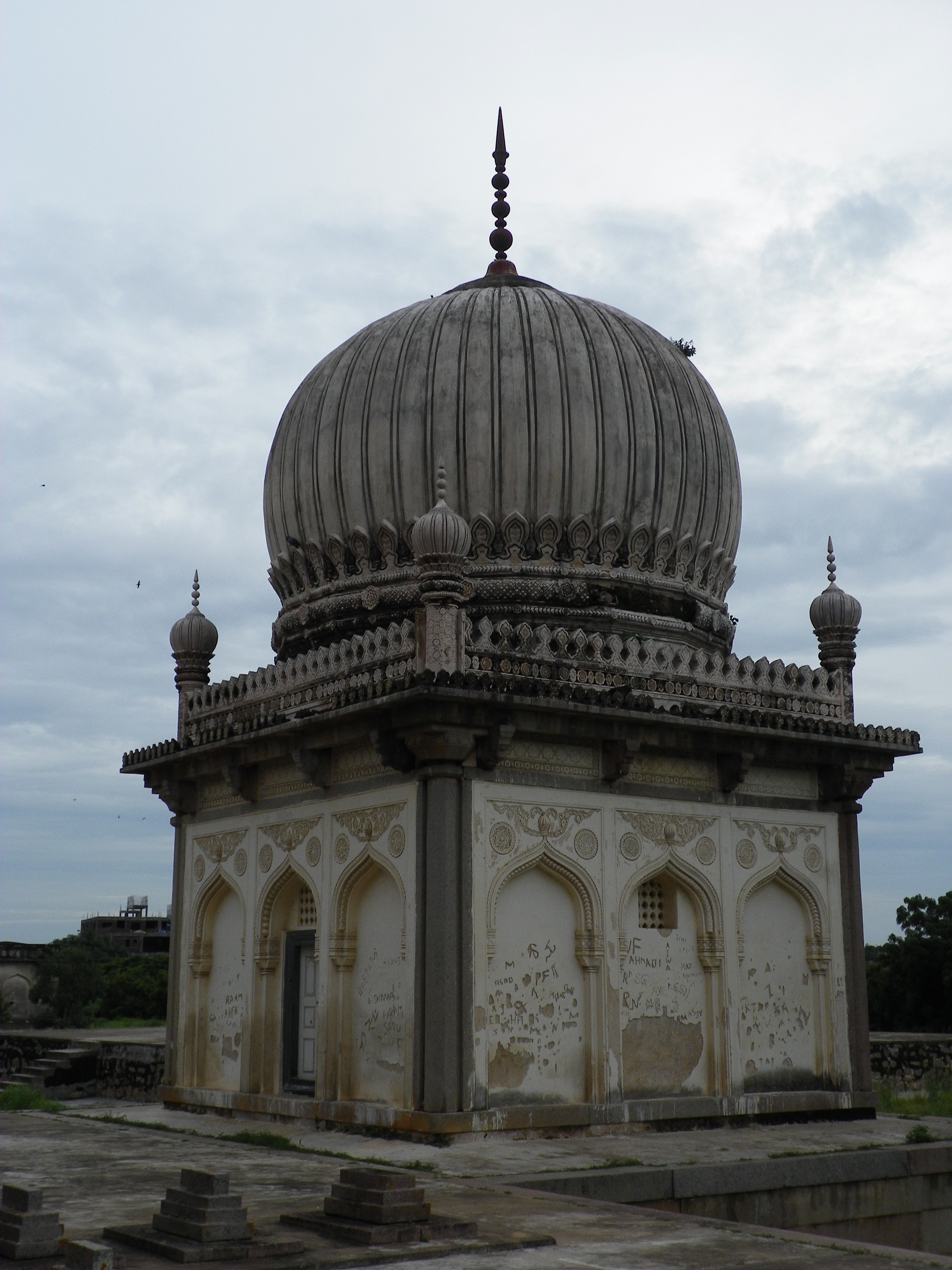 The shortest reigning Qutub Shahi Sultan, Subhan Quli Qutub Shah (1550 CE).